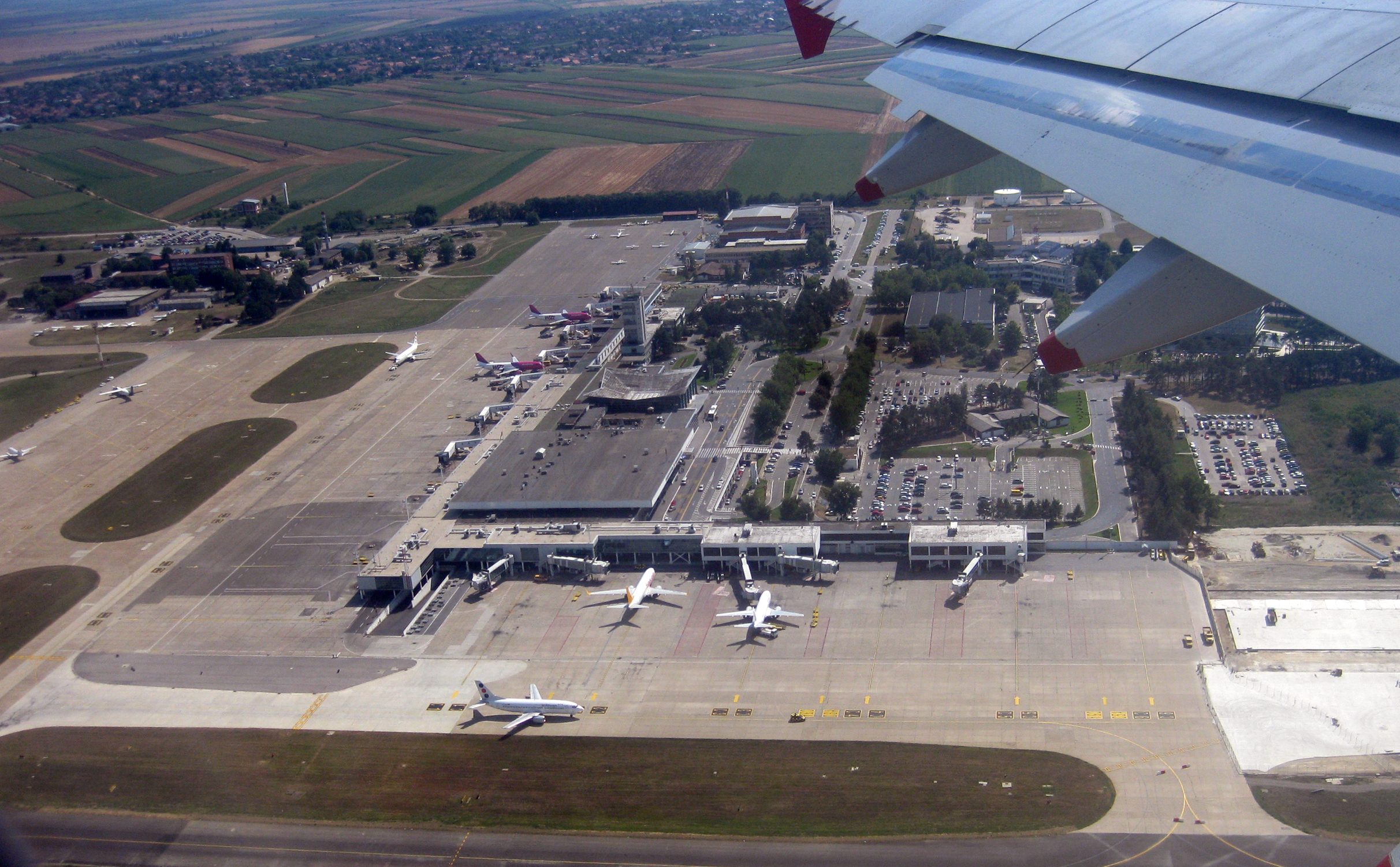 Belgrade Airport